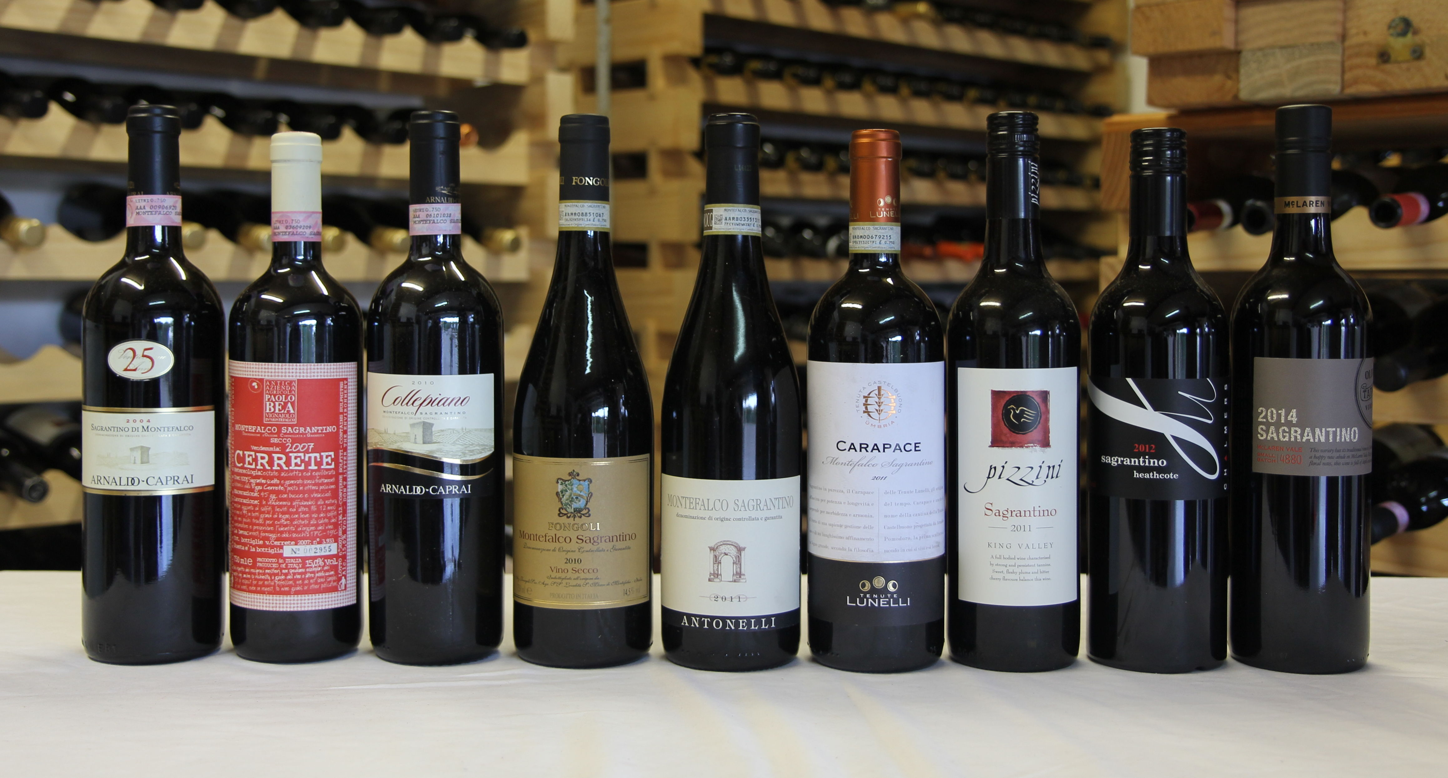 A selection of wines made from the Sagrantino grape variety. Originally grown in Umbria and most notably made into Sagrantino di Montefalco DOCG wine, it is also now growing and being made into wine in Australia and the United States (not pictured). From the author's cellar.